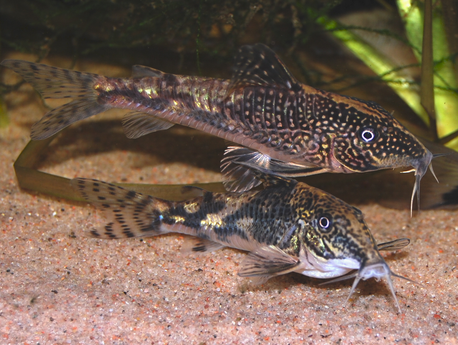 Par av Scleromystax barbatus (hannen øverst) - A couple of Scleromystax barbatus (the male above)